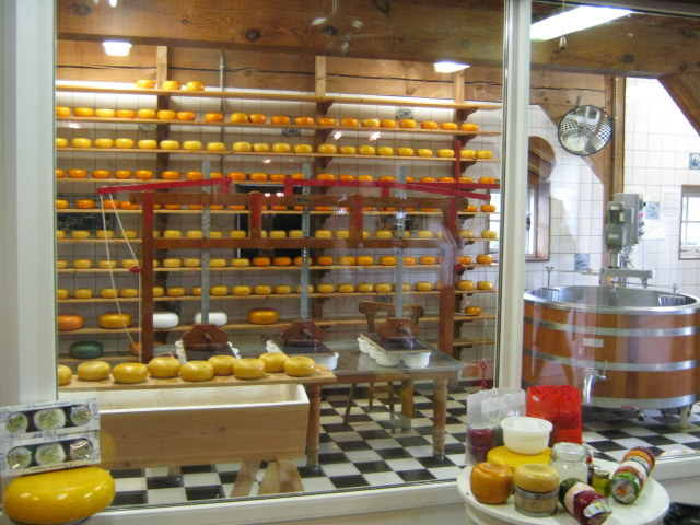 Cheese factory in Holland